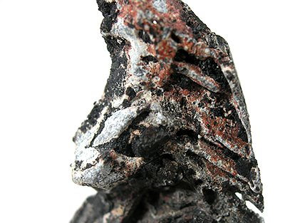 Allactite, Lead Locality: Långban, Filipstad, Värmland, Sweden (Locality at ) Size: miniature, 4 x 2.6 x 1.2 cm Native Lead with Allactite This is a classic, elongated, but unusually sharp lead crysatl with clear faces. It has been left "dirty" rather than cleaned to be penny-bright and metallic, because I value the antique look on these. This is technically a single floater crystal, complete all around, but the visual appearance is of a 3 cm crystal on matrixy-lookin' lead at its base. The base also is dotted with sharp allactite crystals to 4 or 5 mm in size.